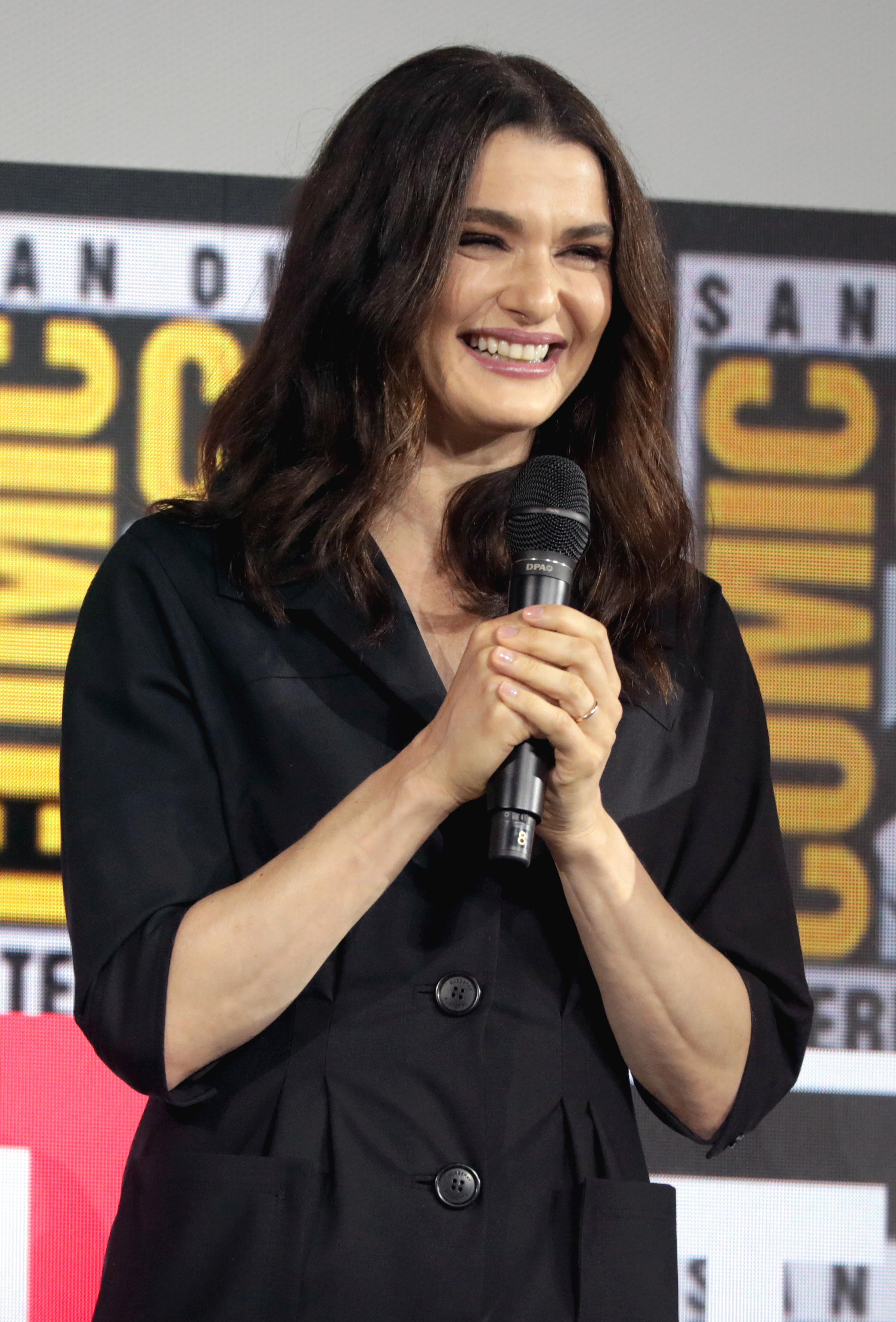 Rachel Weisz speaking at the 2019 San Diego Comic-Con International in San Diego, California.